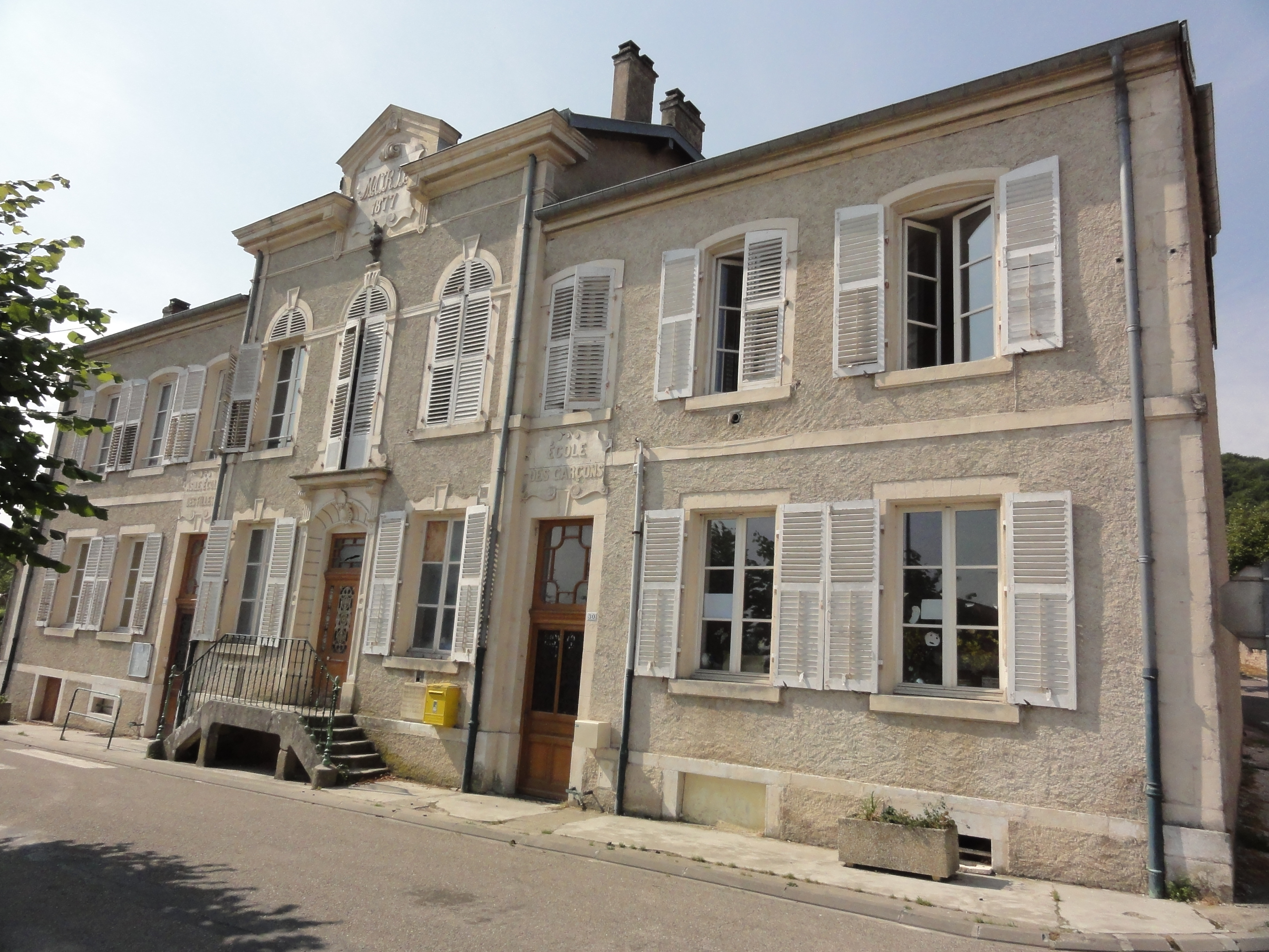 Lagney (Meurthe-et-M.) mairie-écoles coté école des garçons